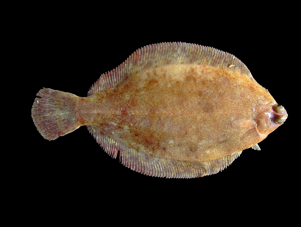 Lemon Sole on board of RV Belgica from the southern North Sea.